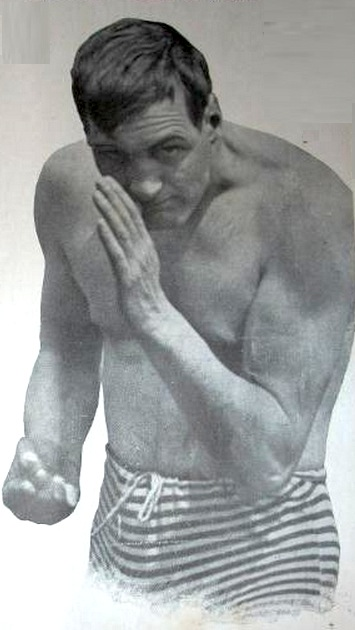 Arthur Cravan posing as a boxer, in Stadium, 29 april 1916.